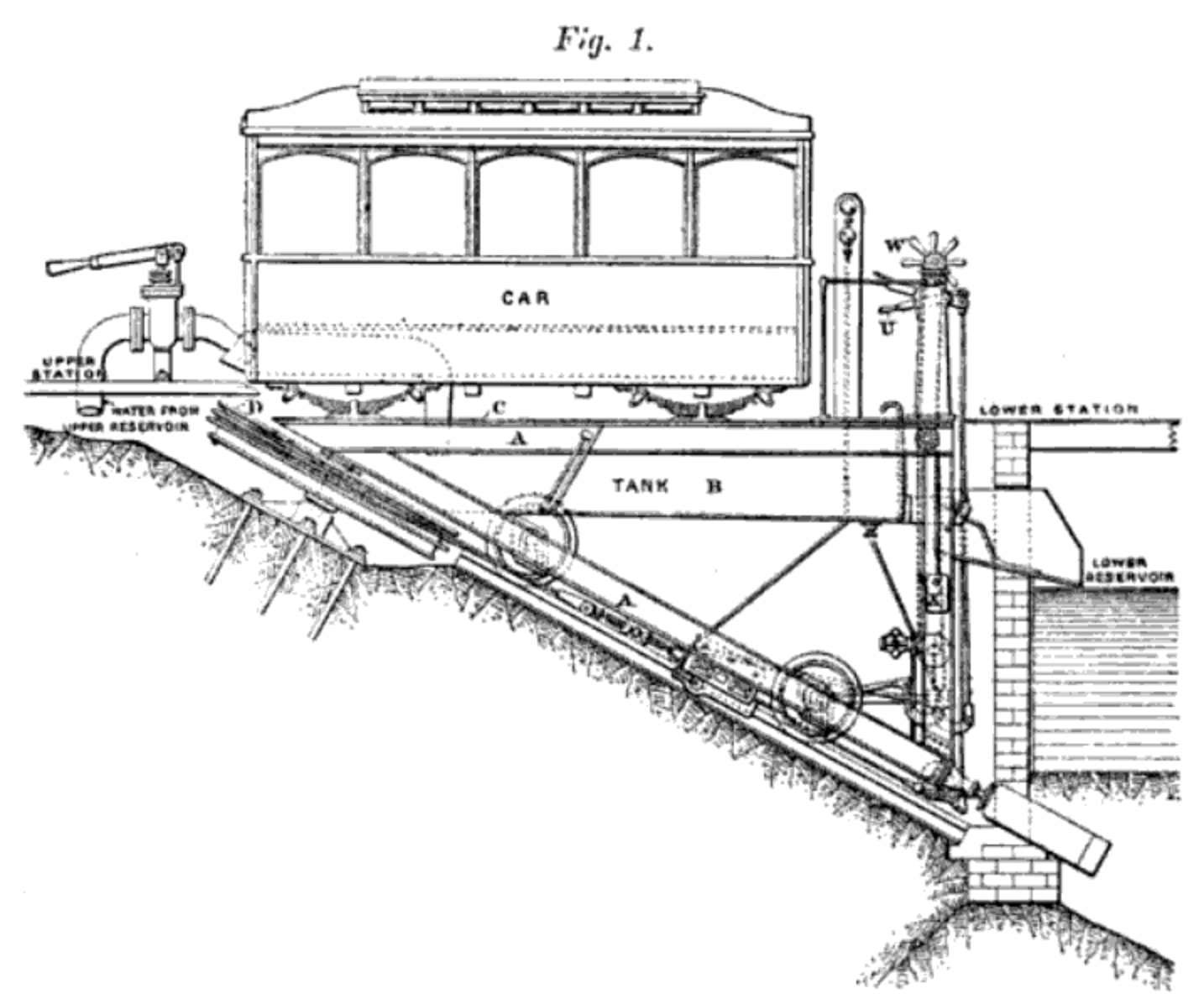 Diagram showing the design of the Clifton Rocks Railway, drawn for article by the railway's engineer G. C. Marks